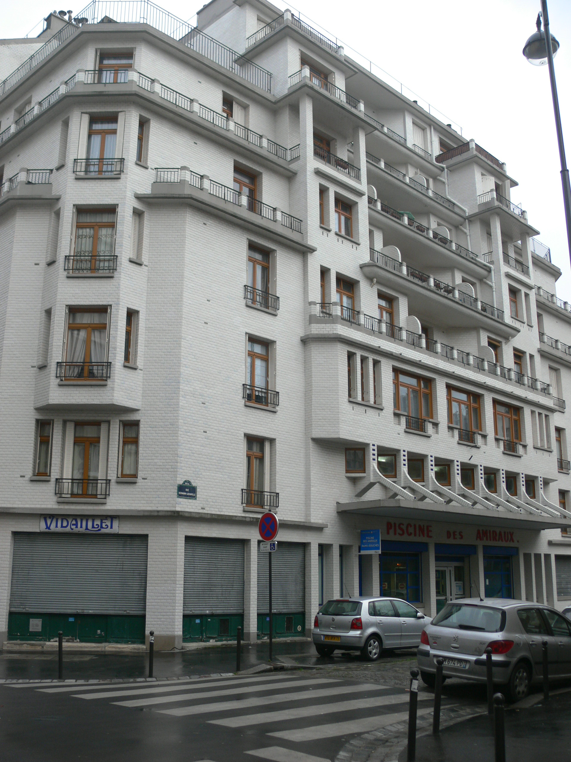 Amiraux building and swimming-pool (Architect: Henri Sauvage)